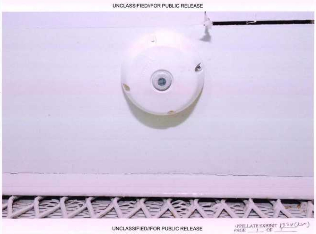 Microphone masquerading as a smoke detector, at Guantanamo.